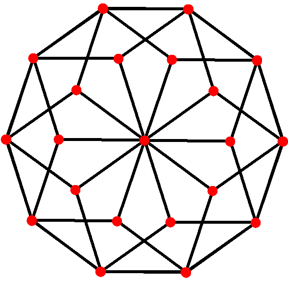 Rhombic triacontahedron